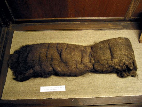 The longest – 1.5-meter long – preserved Polish plait, in the History of Medicine Museum in Kraków (19th century).